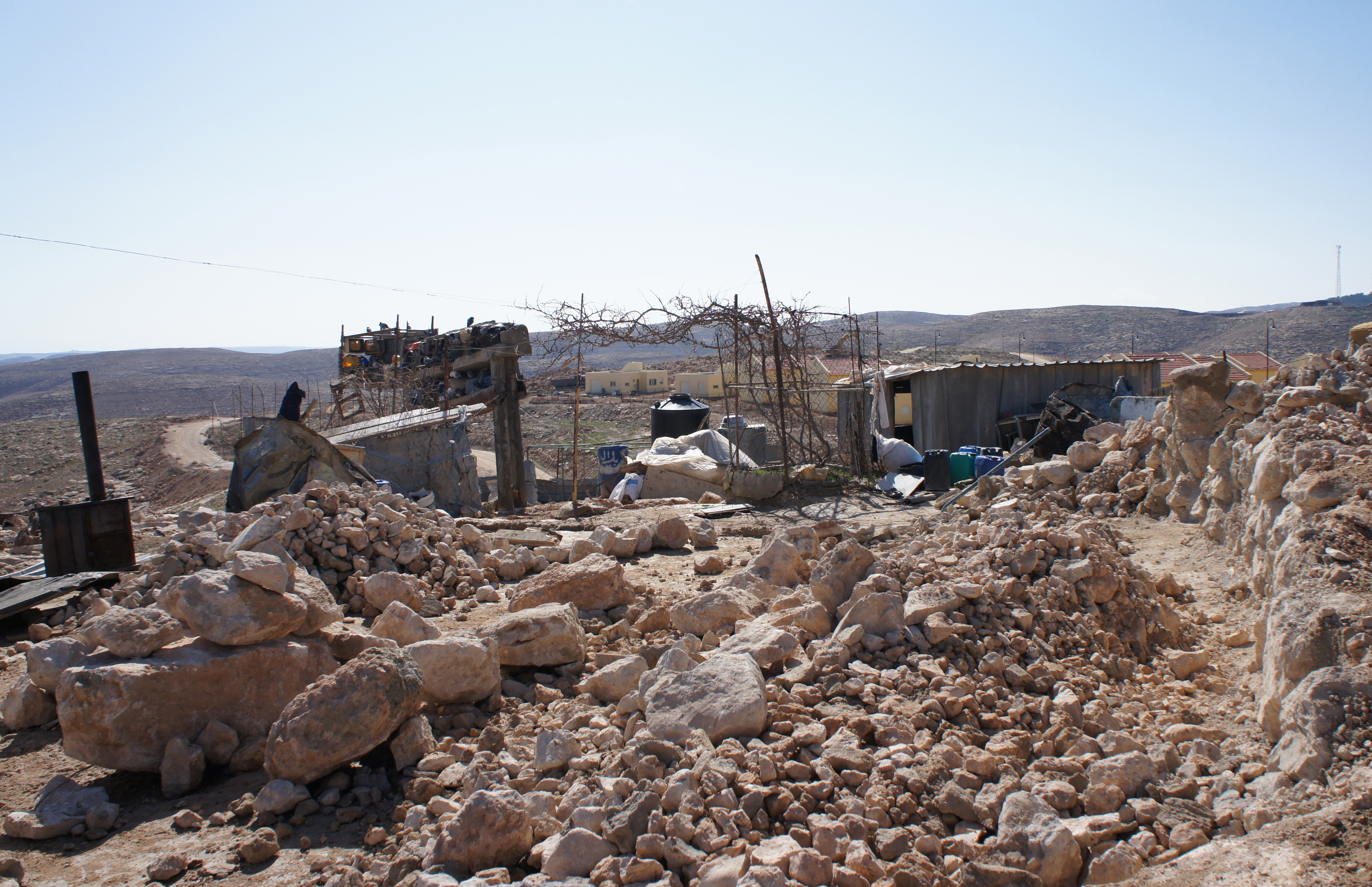 Umm al-Kheir, South Hebron Hills. In the foreground: the rubble of the home of a widow with 9 children, Israeli troops demolished her house on the 25th of January 2012. In the background the illegal Israeli settlement of Karmel. and and